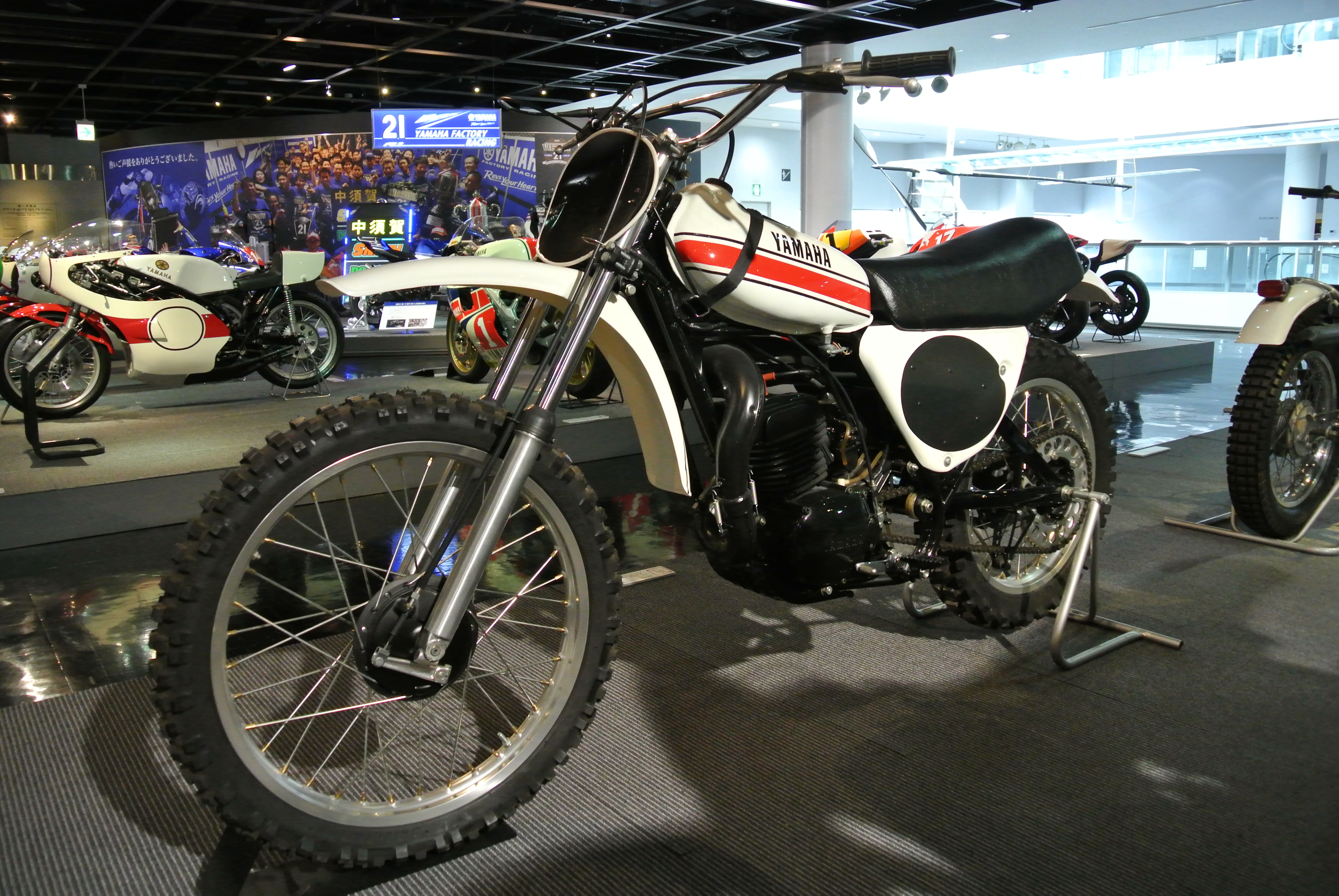 1974 Yamaha YZ250 (OW12) in the Yamaha Communication Plaza.